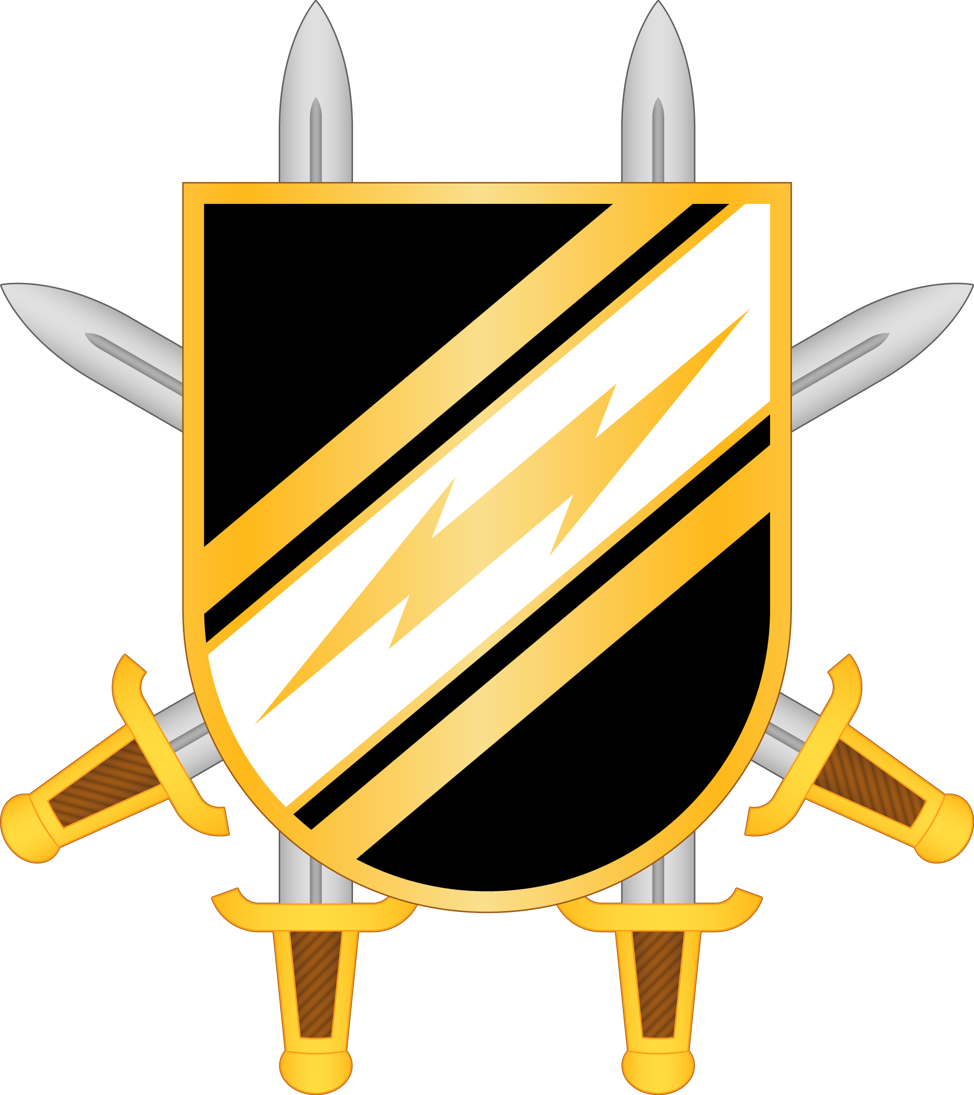 United States Armed Forces' Joint Special Operations Command, Joint Communications Unit-Army Element distinctive unit insignia